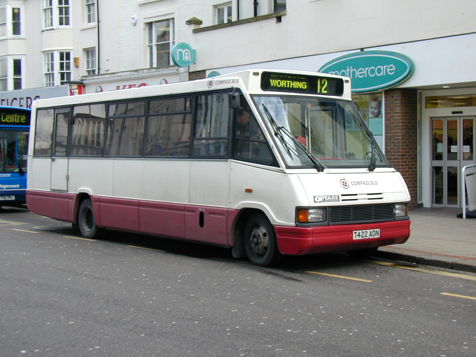 T422 ADN, an 1999 Optare MetroRider midibus, seen here in Worthing Town Centre on the Service 12 "Shopper" service between Durrington and the Town Centre. This operated from December 2004 until 27 June 2005, when it was partially replaced by an extended service 14, and subsequently absorbed into the new service 16 from 4 September 2006. The service number was subsequently used for a morning and evening workers shuttle between Worthing & Southlands Hospital from 4 September 2006 to 16 April 2007. From 15 October 2007, service number 12 has been applied to the new Littlehampton Town Bus service.